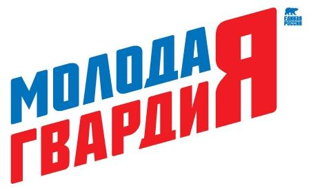 Logo Youth movement Young Guard of the party United Russia